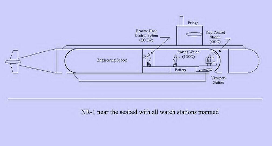 Sketch of the NR-1 on the seabed.